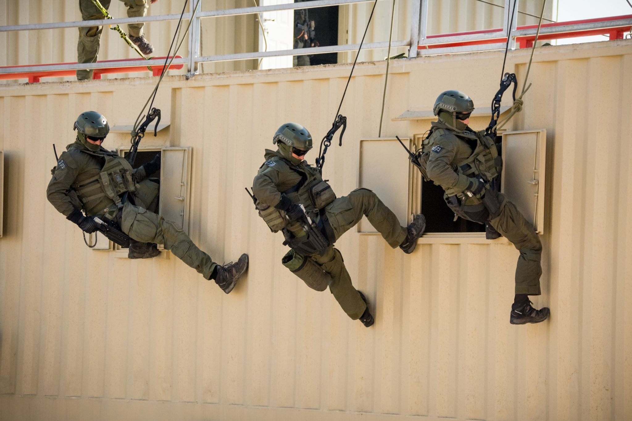 YAMAM - Israeli Police elite counter-terrorism unit, 2018